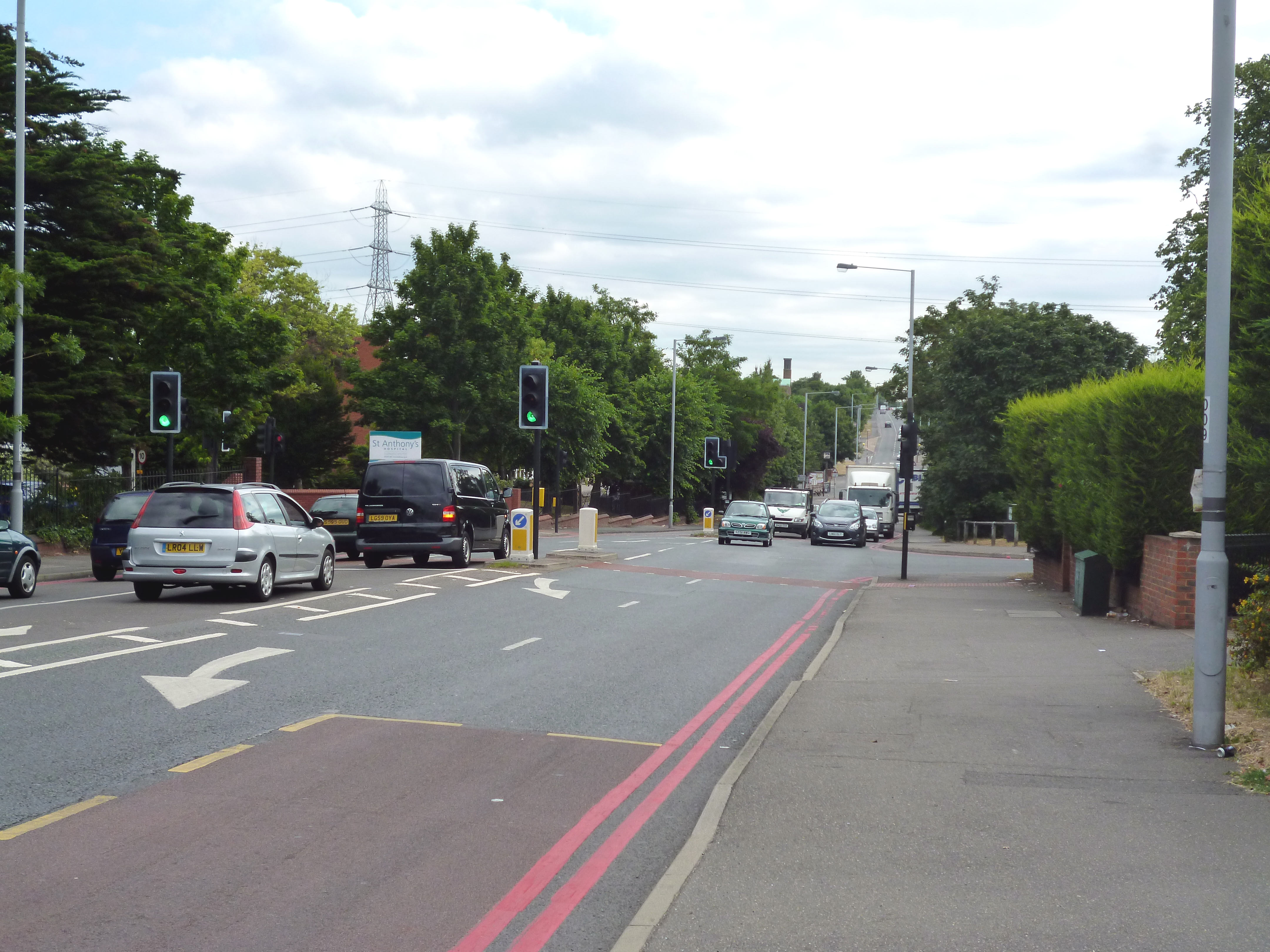 North Cheam, Stonecot Hill